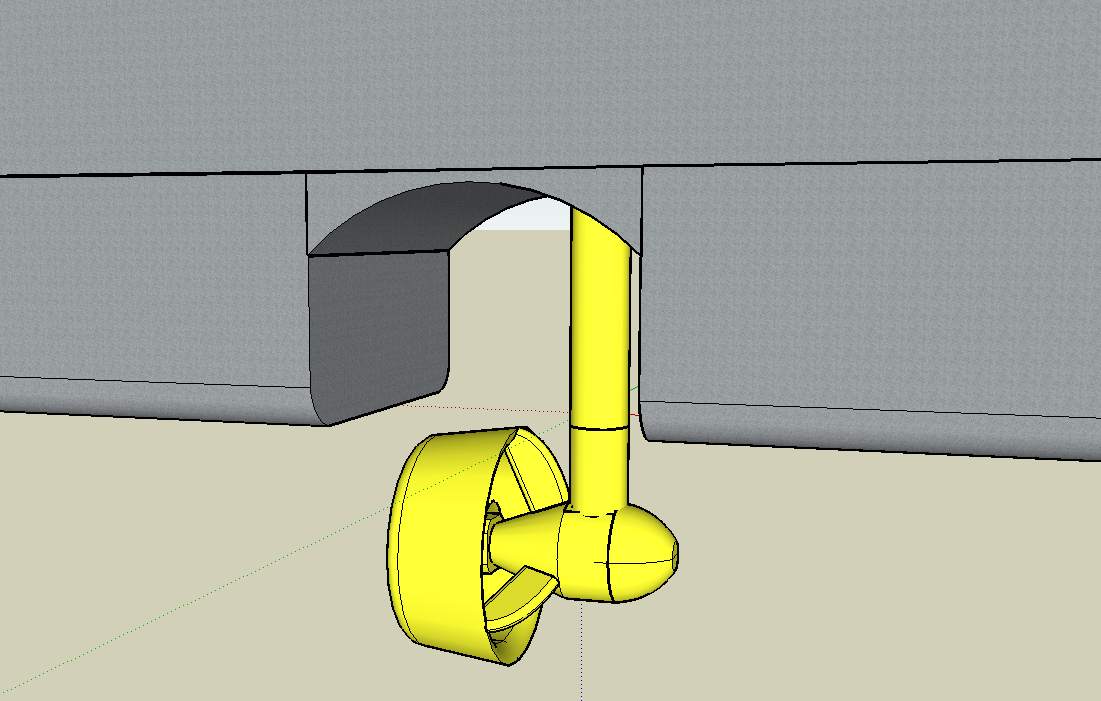 retractable azimuth propeller